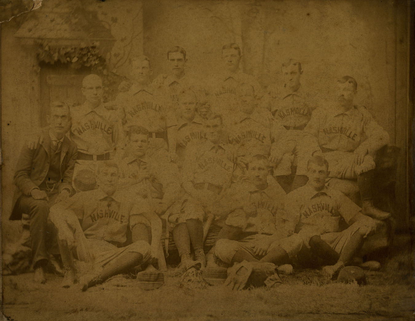 A photograph depicting the Nashville Base Ball Club, circa 1880s. The team is believed to be the 1886 Nashville Americans, that played in the original Southern League, due to the presence of Norm Baker (far left in suit), Walt Goldsby (seated, center-front), and Mike Smith (second from the right on the ground).